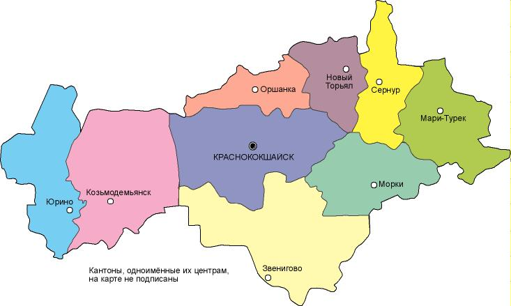 Map of Mariyskaya AO in 1927